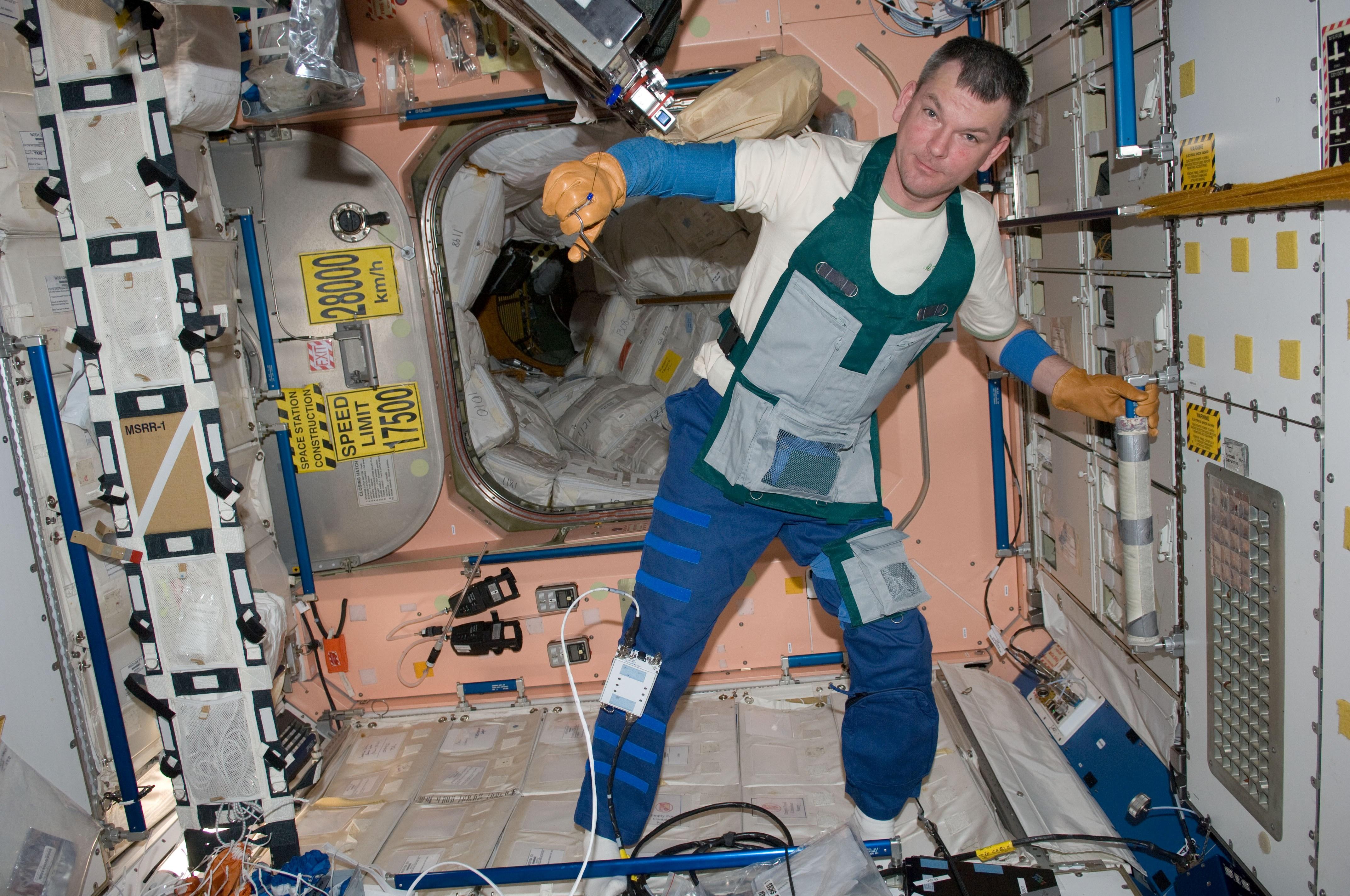 Russian cosmonaut Aleksandr Samokutyayev, Expedition 27 flight engineer, wearing in a work apron, is pictured in the Unity node of the International Space Station.